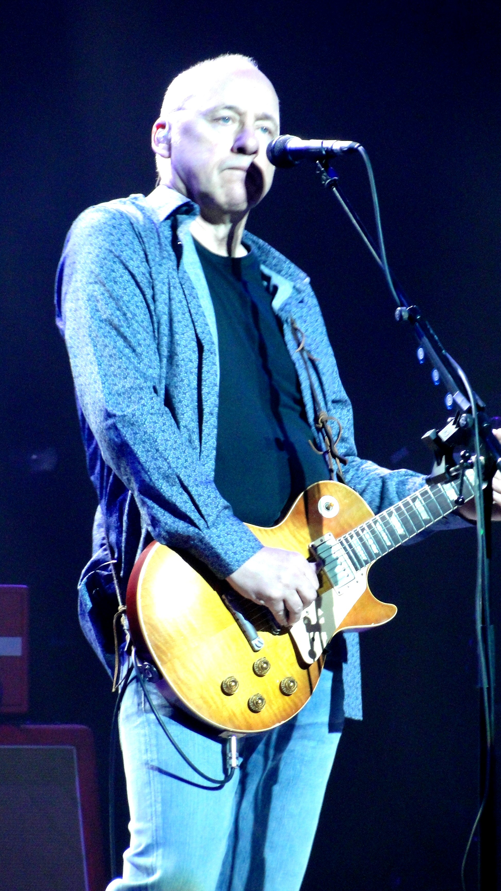 Mark Knopfler At Queen Elizabeth Theatre, Vancouver British Columbia, April 09 2010